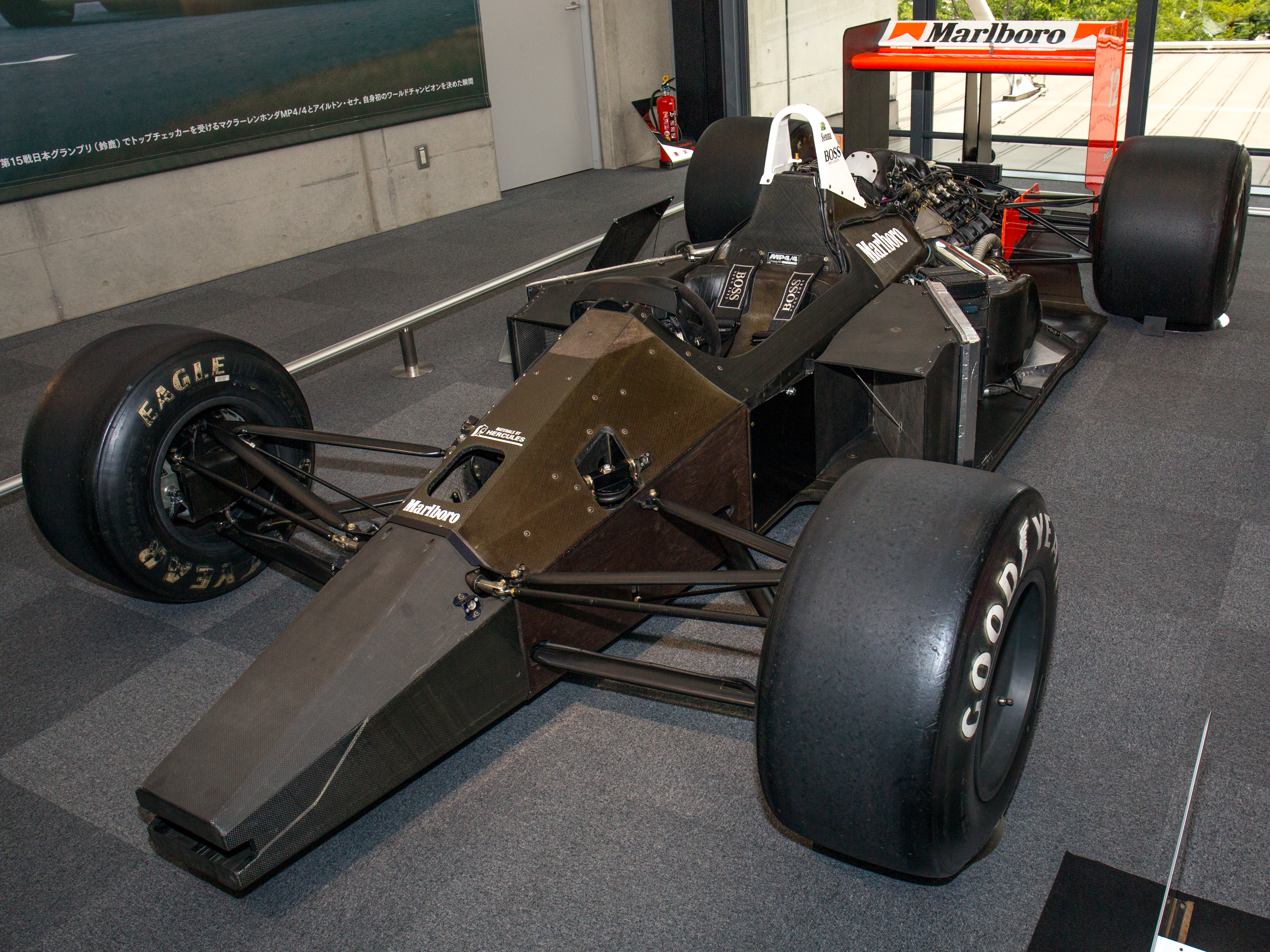 1988 McLaren MP4/4